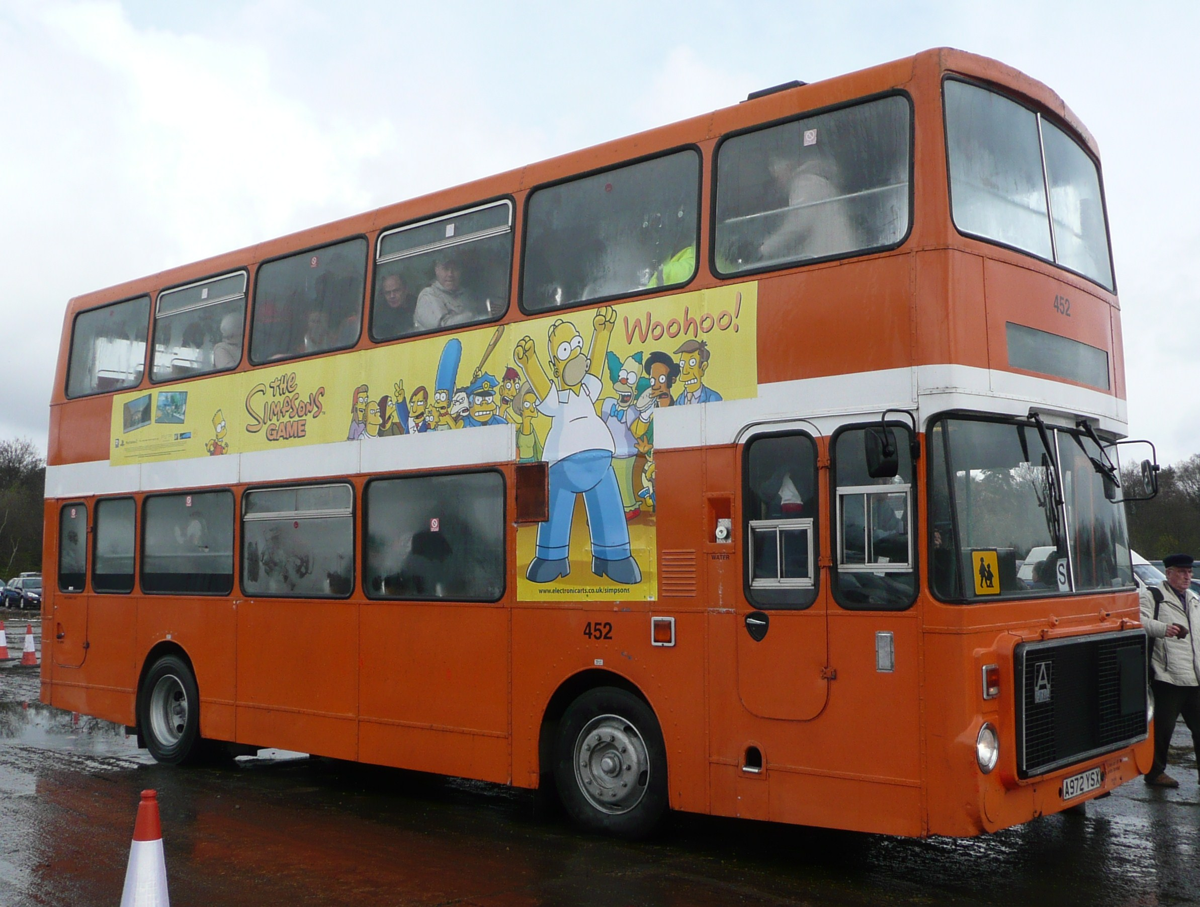 Sunray Travel bus (reg. A972 YSX), a 1984 Volvo Ailsa B55 double-decker with Alexander RV bodywork, pictured at the 2008 Cobham bus rally, operating the shuttle service between the rally site at Wisley Airfield and Cobham bus museum (as denoted by the S in the window?). Having been bought from Cardiff Bus early in 2008, it's still wearing their livery and its fleet number while there, 452. For a full history, see this image of it operating the same shuttle in the 2009 rally (by that time in Sunray's blue livery).